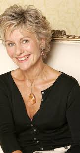 British Actress Diana Hardcastle